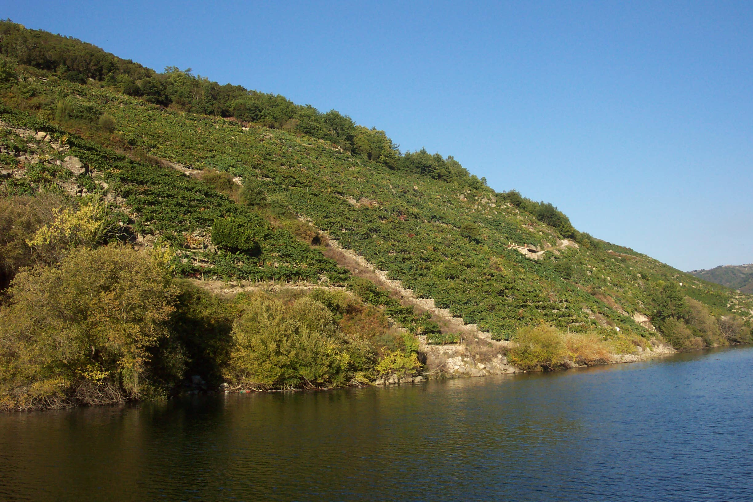 Canón do Sil, Spain